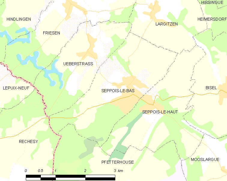 Map of French municipality